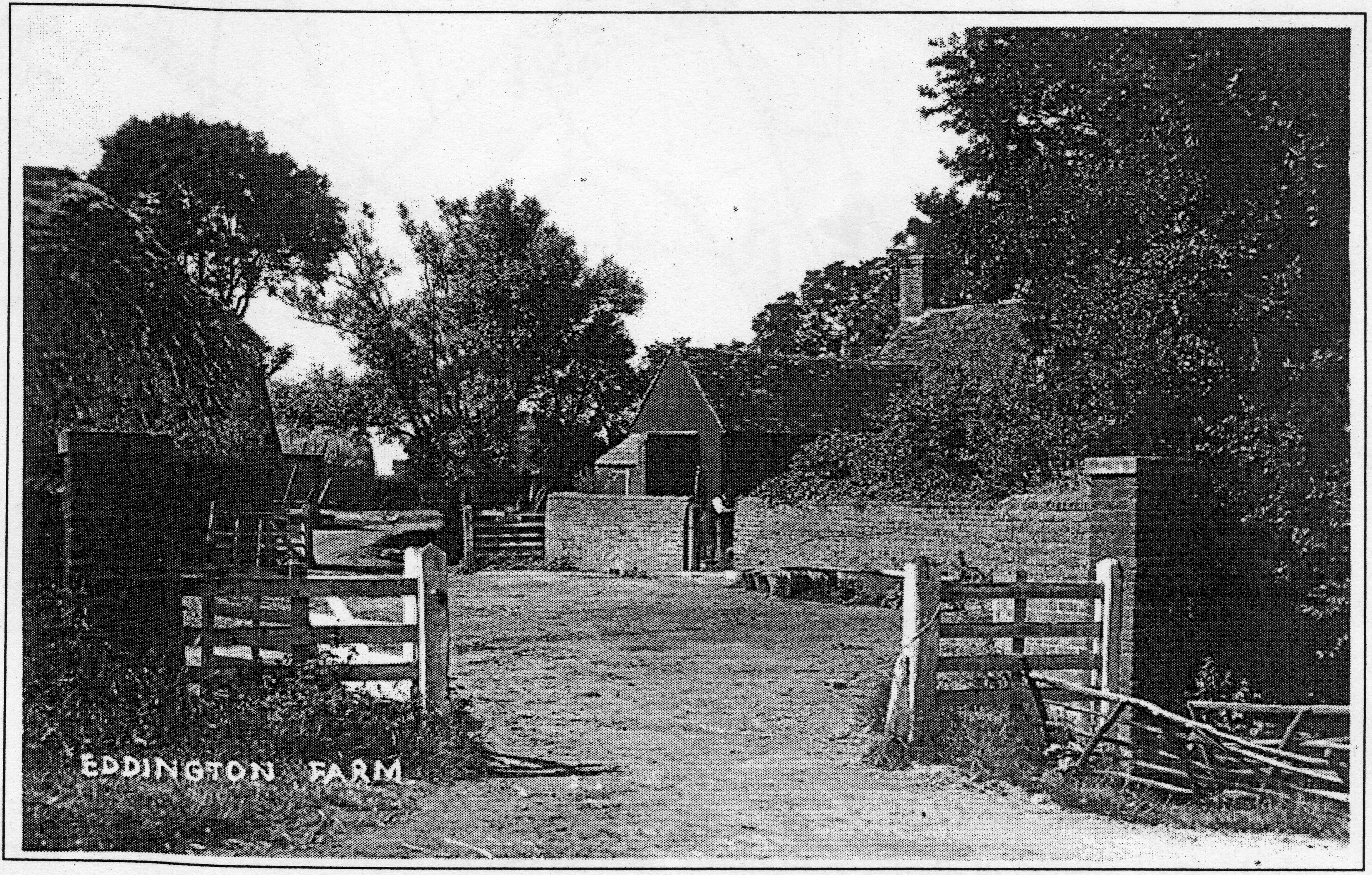 Scanned photocopy of postcard of Eddington Farm, Herne Bay, Kent, England. Points of interest: There is a man in shirtsleeves and waistcoat in the gateway leading off the farmyard. The tithe barn to the left is thatched The postcard could be in the style of Fred C. Palmer (d.1941), who photographed the Herne Bay area 1903-1922.